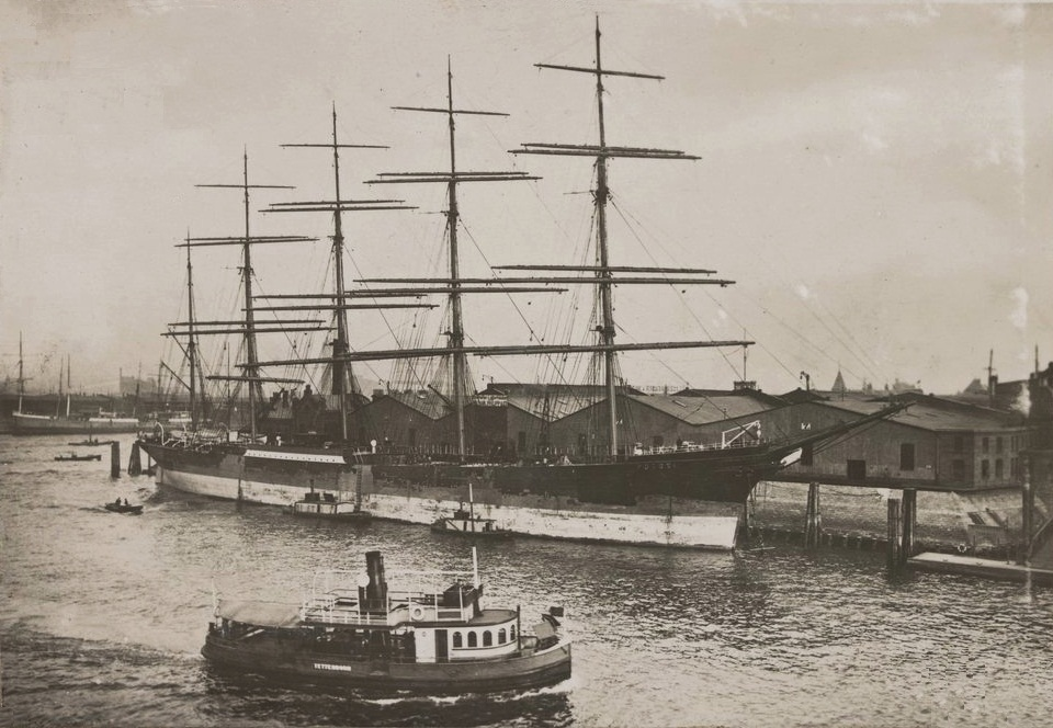 Five masted barque „Potosi“ at wharf. The barque was built in 1895 and was sunk in 1925 after catching fire and the crew abandoning it. Other name for the barque was „Flora“.